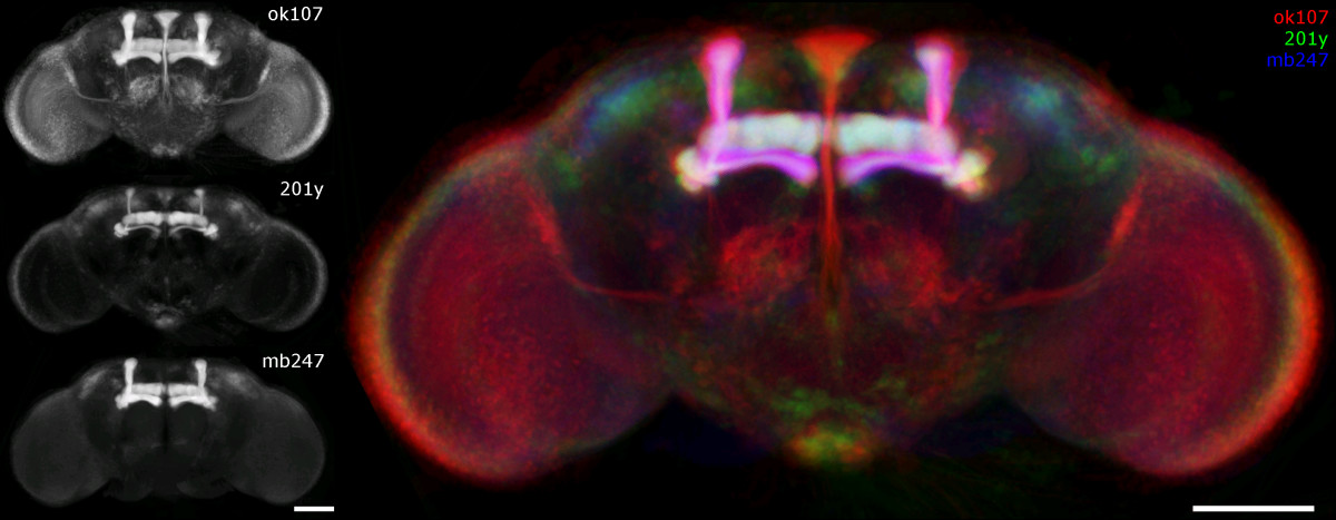 Comparison of standardized expression patterns. Projection view on standardized expression patterns (ok107/201y/mb247). Gal4 lines were crossed to UAS-EGFP2 for visualization, scanned with a Leica-SP1 confocal microscope (8-bit tifs) and standardized using VIBdiffusionTransformation(DT). On the left the standardized expression patterns are visualized in grey values (Nok107 = 17, N201y/mb247 = 15). On the right the same images are superimposed and color coded (ok107 red, 201y green, mb247 blue). In structures common to all three expression patterns colors add up to white (e.g. γ-lobes of the mushroom body Gal4-positiv in all lines displayed (white), α'/(β') and medial bundle Gal4-positive in ok107 only (red), besides strong Gal4 expression in the pars intercerebralis (PI) in ok107 some cell bodies are Gal4-positive as well in 201y (green)), Scale bar 100 μm Jenett et al. BMC Bioinformatics 2006 7:544